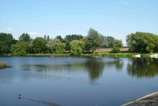 Ardleigh Reservoir from Wick Lane. This is a shot of Ardleigh Reservoir north of Colchester taken from near Fountain Farm . The Reservoir was created in the 1970’s when Colchester’s traditional water source at Lexden Springs became inadequate for the expanding town. The picture was taken from a causeway on Wick Lane looking north east(ish).